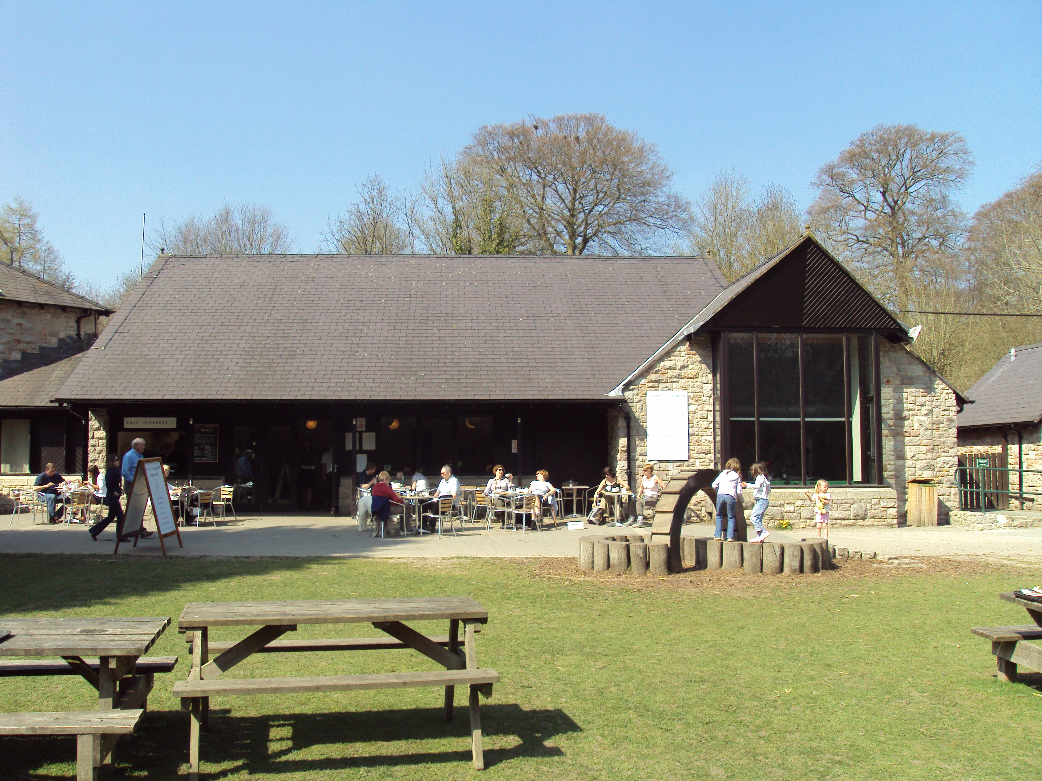 Loggerheads visitor centre, Denbighshire, North Wales.